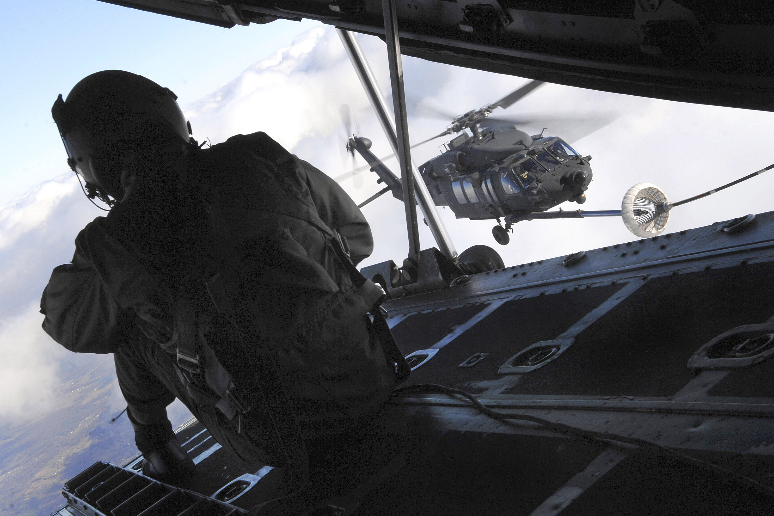 From the rear ramp of an HC-130, Staff Sgt. Jeremy Mayo observes an aerial refueling of a U.S. Army MH-60K Blackhawk helicopter Dec. 2 over Fort Campbell, Ky. He is a loadmaster with the 9th Special Operations Squadron. (U.S. Air Force photo/Senior Airman Julianne Showalter)